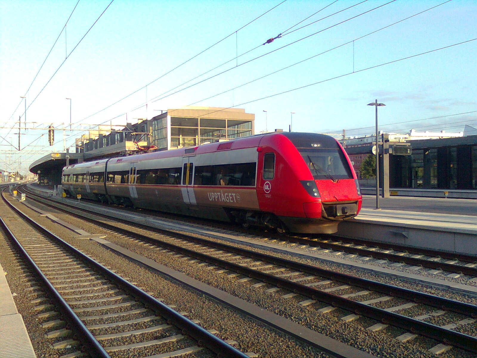 Upptåget train at the Uppsala central station, Sweden.